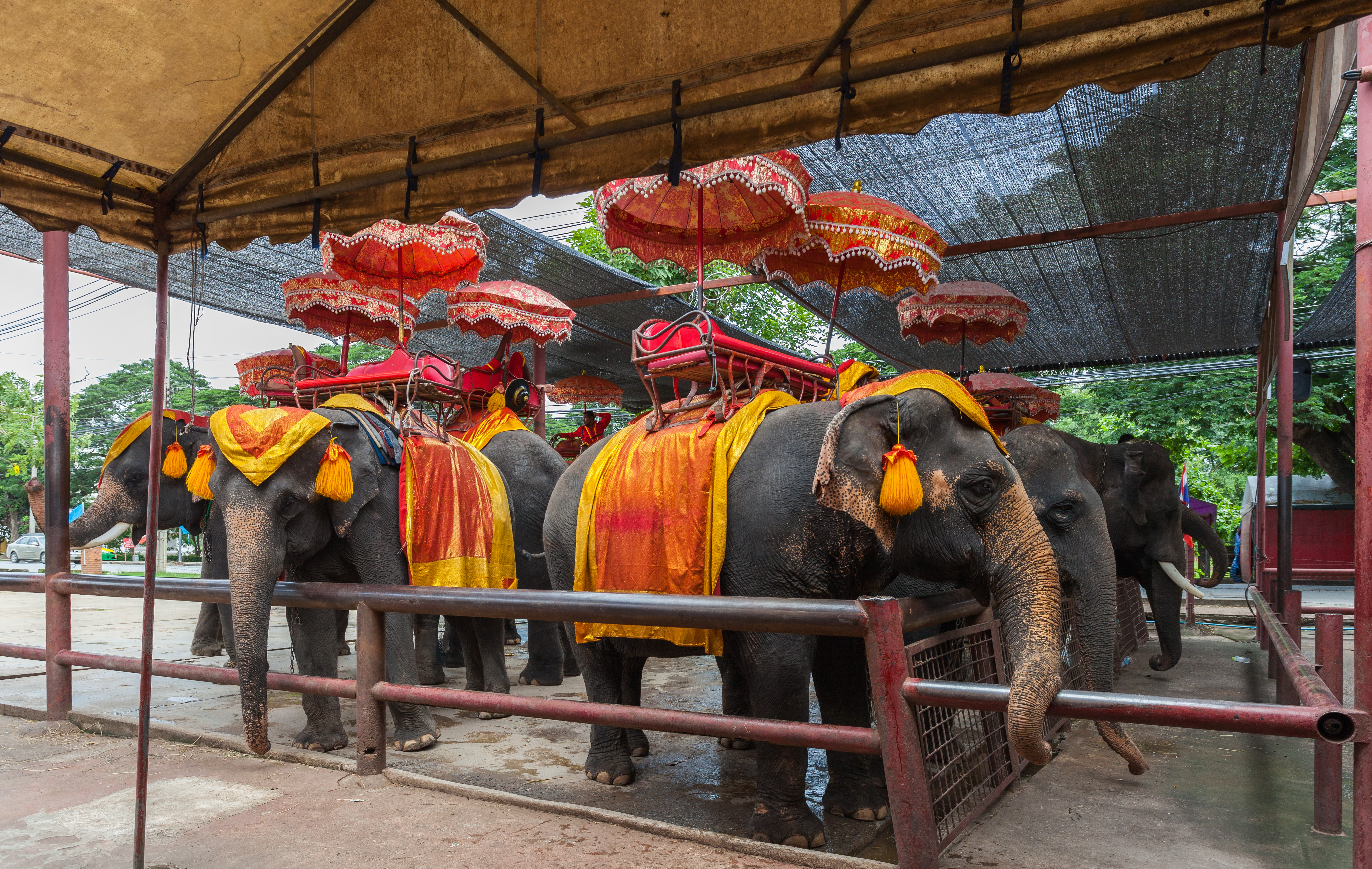 Elephants, Ayutthaya, Thailand